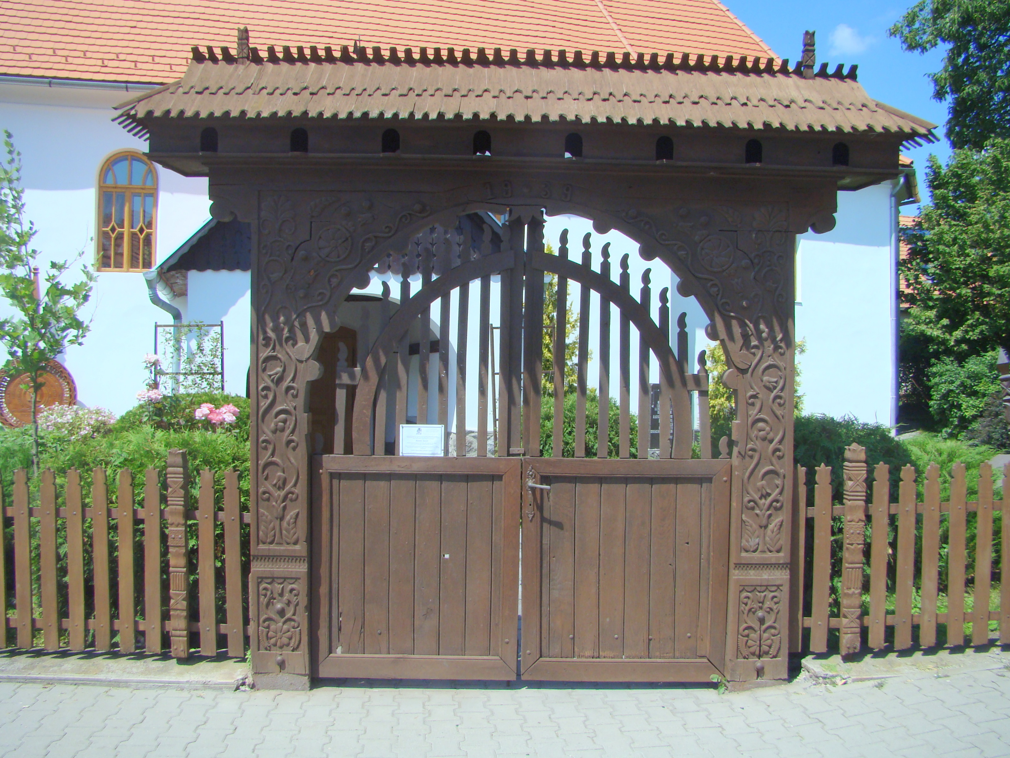 Wooden gate of the reformed church in Praid, Harghita county, Romania